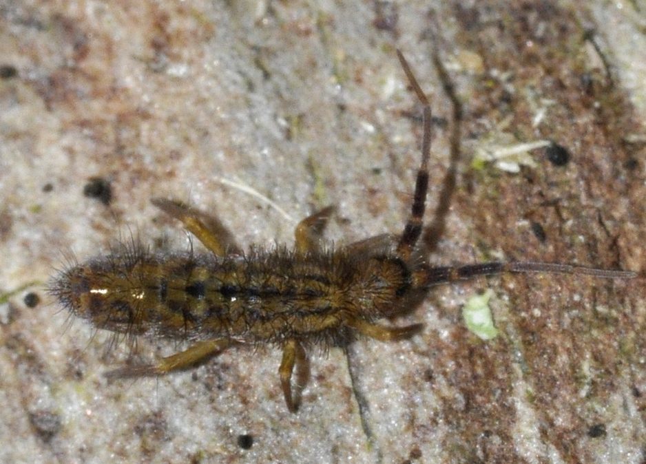 Orchesella quinquefasciata (Bourlet, 1841). Body length 3.5 mm without antennae. Germany: Niedersachsen, Kreis Northeim, 1 km S of Fredelsloh, 350 m.